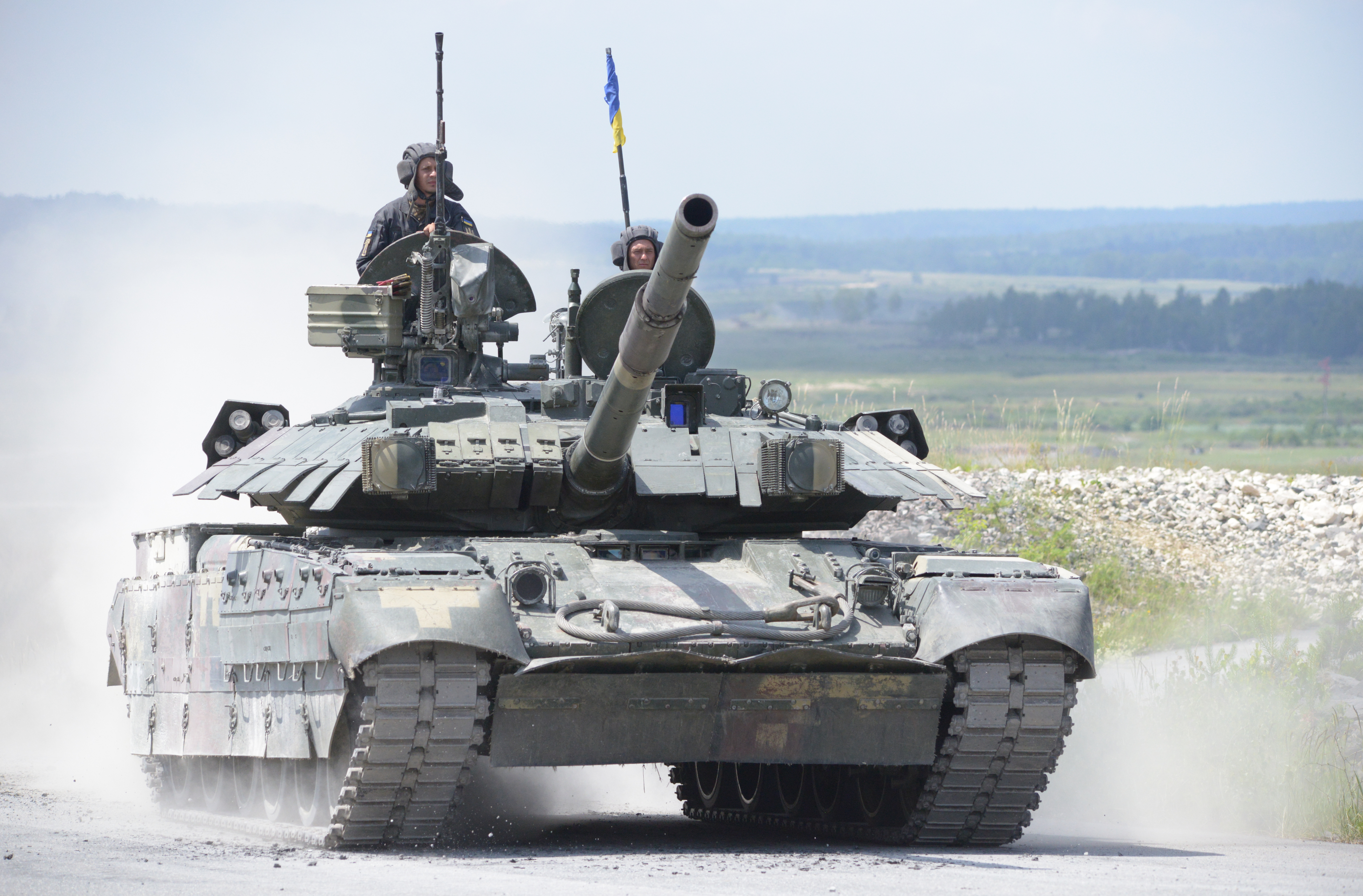 U.S. Army Europe and the German Army co-host the third Strong Europe Tank Challenge at Grafenwoehr Training Area, June 8, 2018. The Strong Europe Tank Challenge is an annual training event designed to give participating nations a dynamic, productive and fun environment in which to foster military partnerships, form Soldier-level relationships, and share tactics, techniques and procedures. (U.S. Army photo by Christoph Koppers)